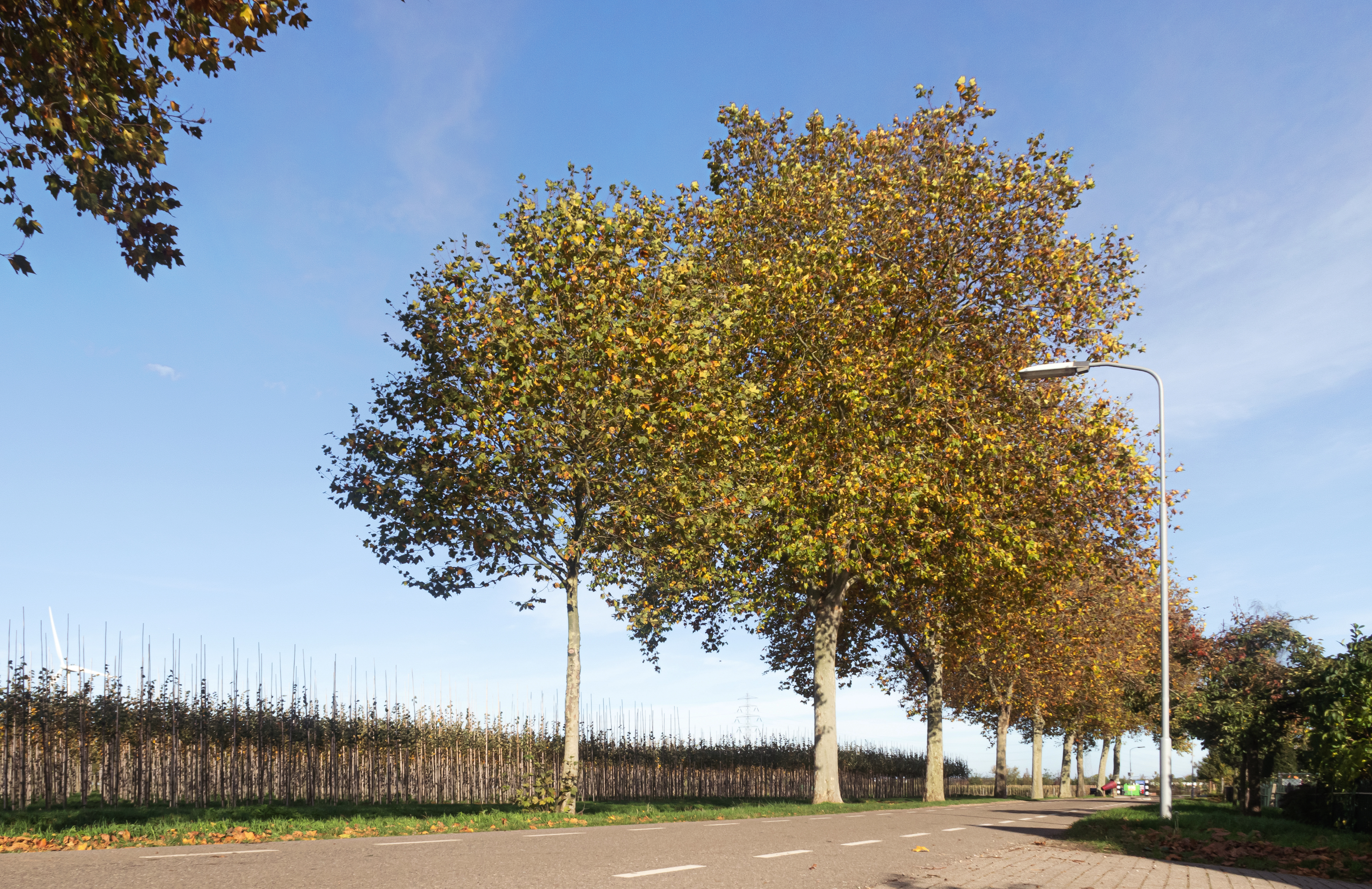 Pottum, street view